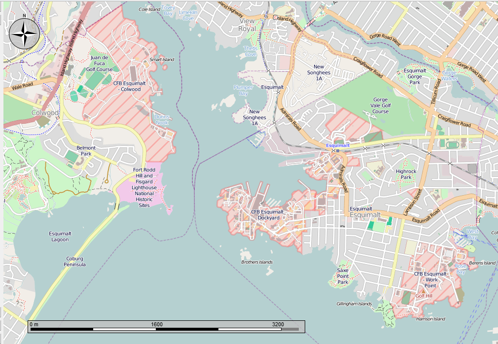 Open Street Map showing the three main areas of CFB Esquimalt.